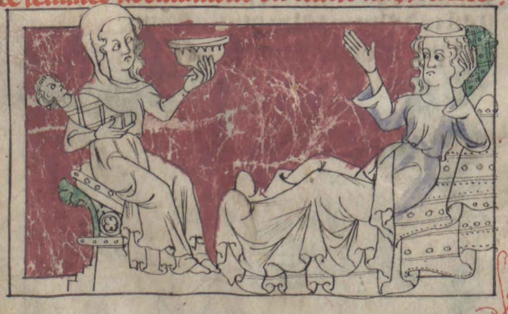 A 5-year old woman of the Calingae people can give birth to children.(Mandragore)